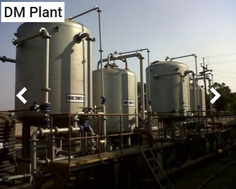 Dual Media Filtration System (DMF)